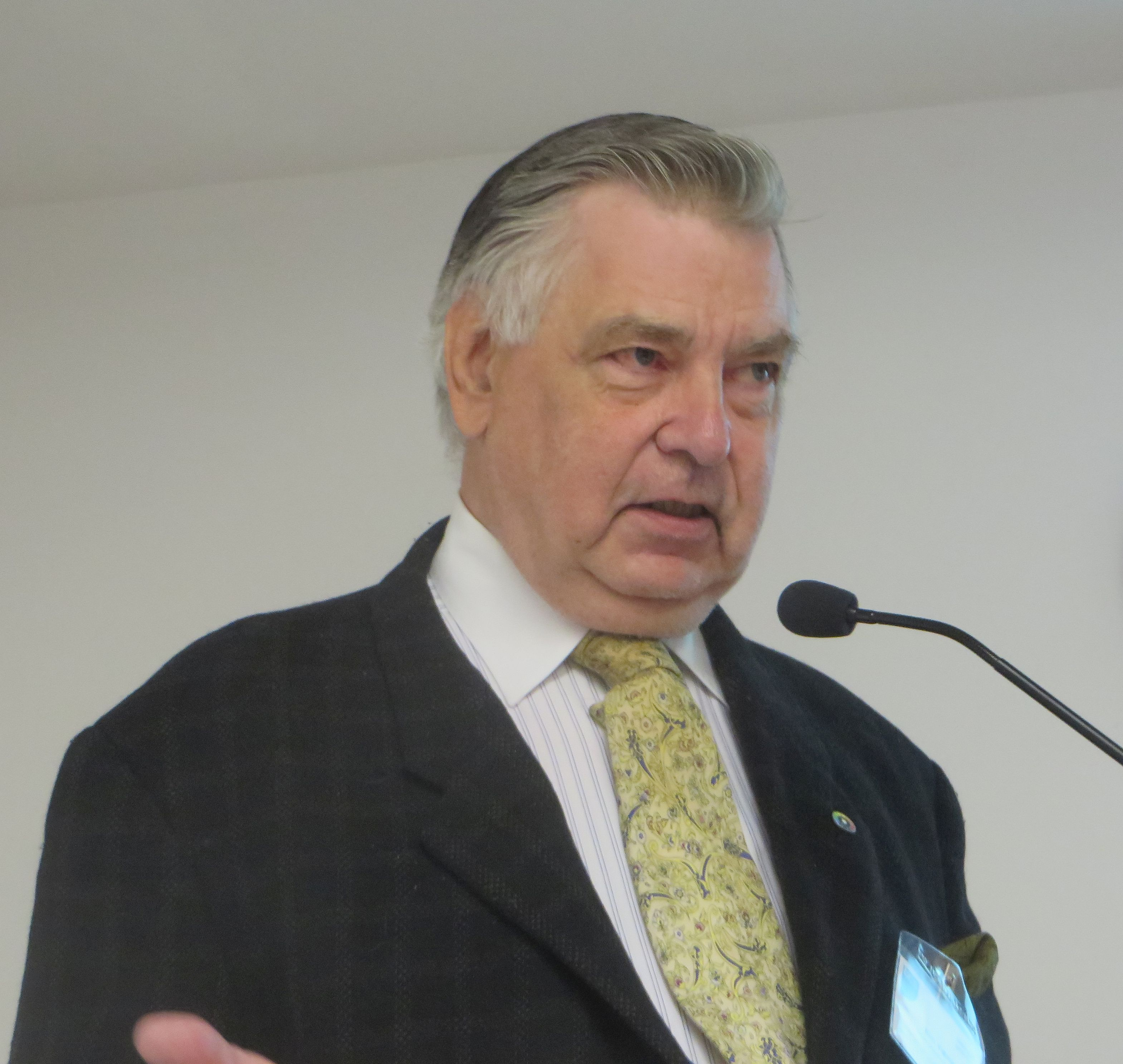 Kim H. Veltman speaking at the EVA London 2017 Conference, delivering his keynote talk on 11 July 2017.